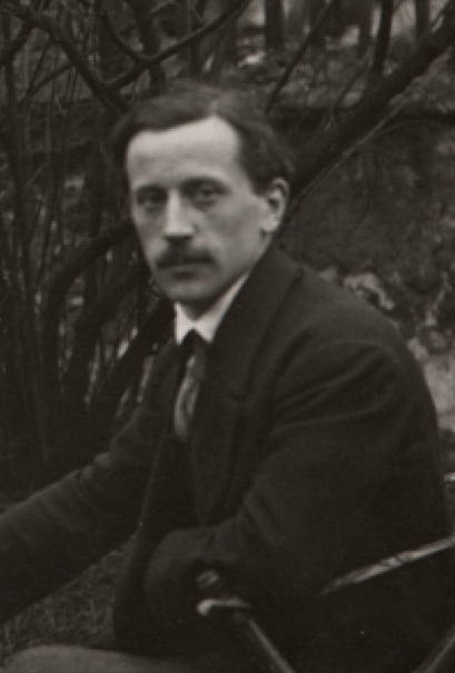 Detail, Raymond Duchamp-Villon, in the garden of Villon's studio, Puteaux, France, ca. 1912-13 / unidentified photographer. Walt Kuhn, Kuhn family papers, and Armory Show records, Archives of American Art, Smithsonian Institution. (Armory Show promotional image)